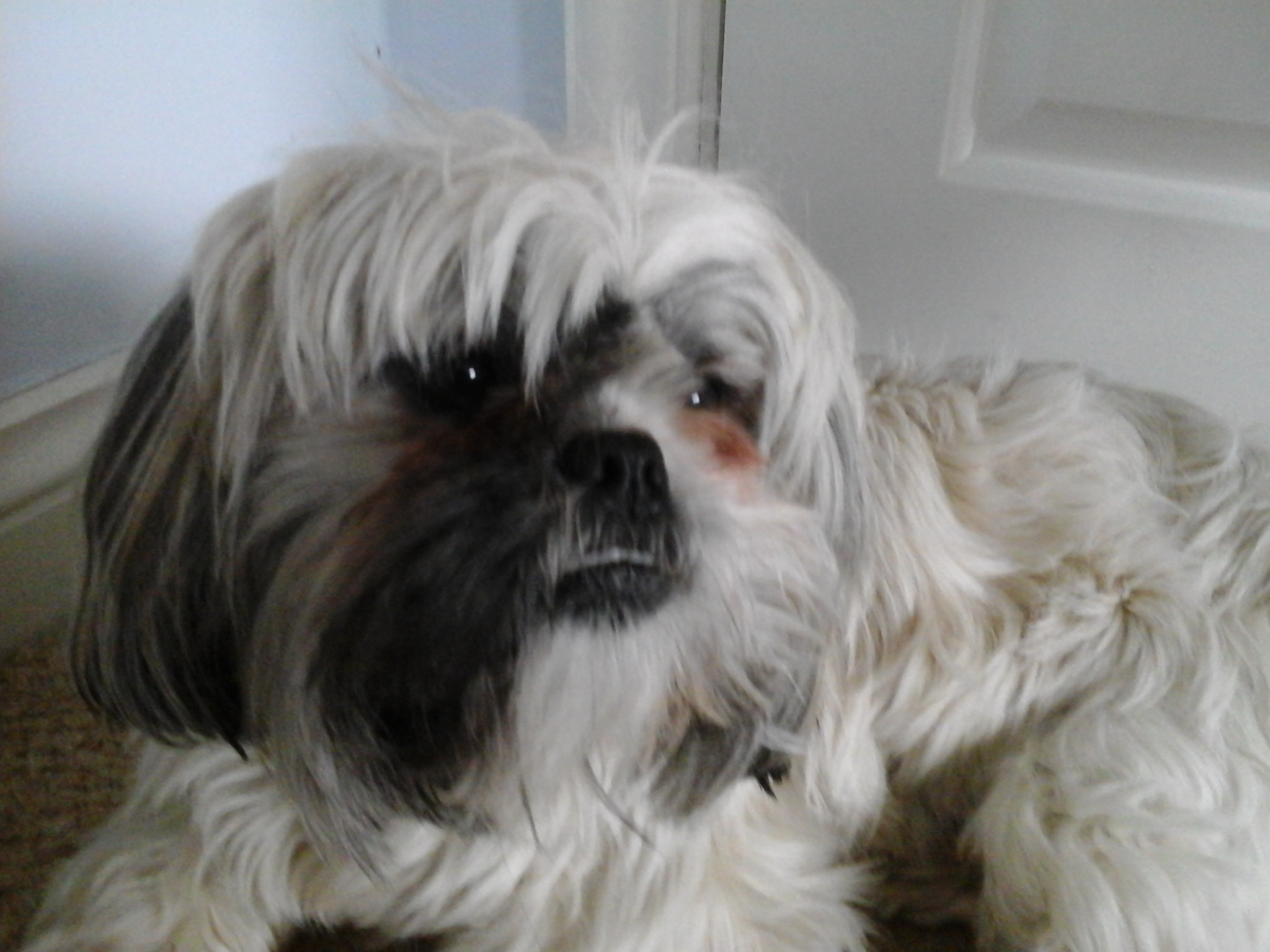 Maltese Shi Tzu dog.